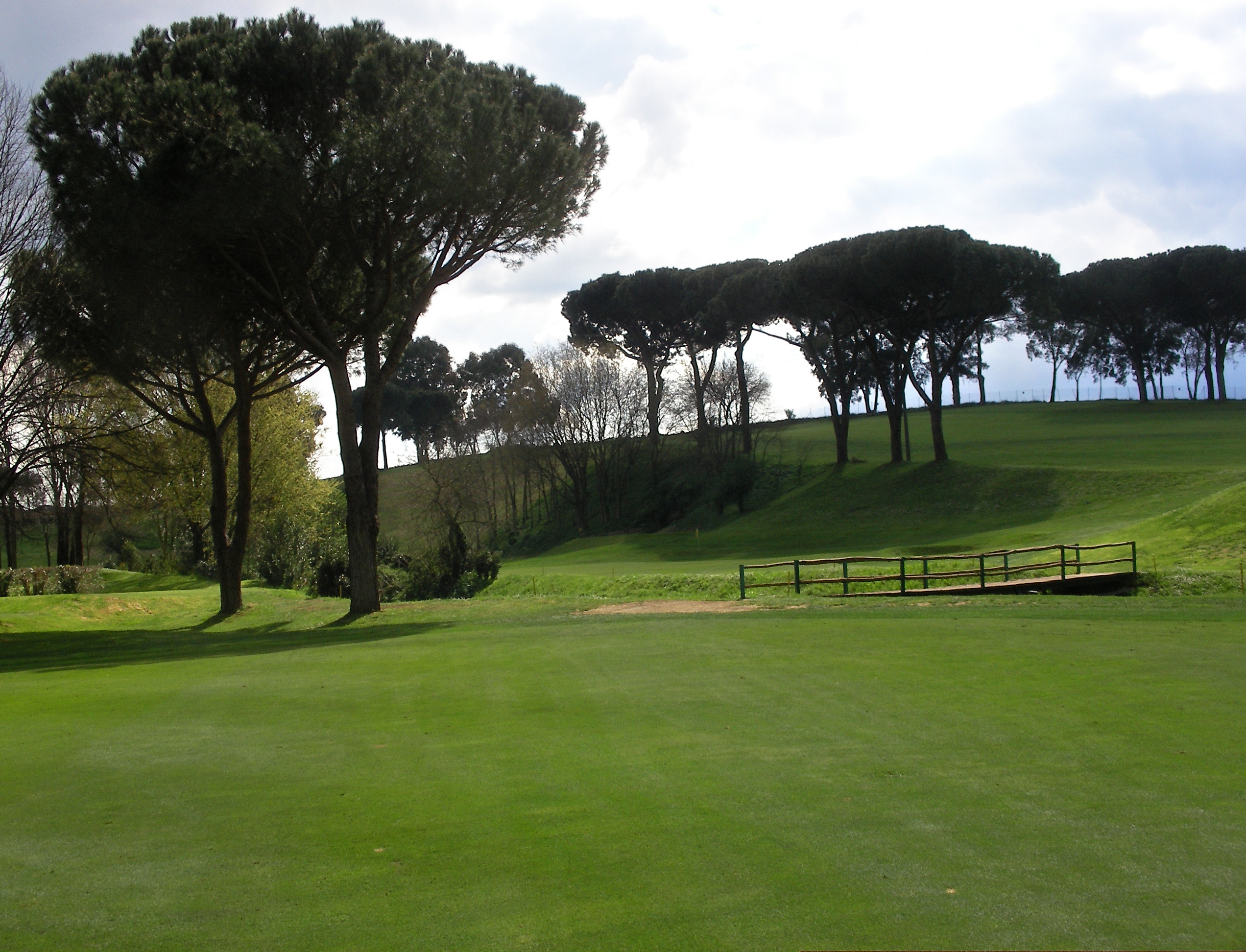 17th Green, Circolo Golf Roma Acquasanta, Rome, Italy